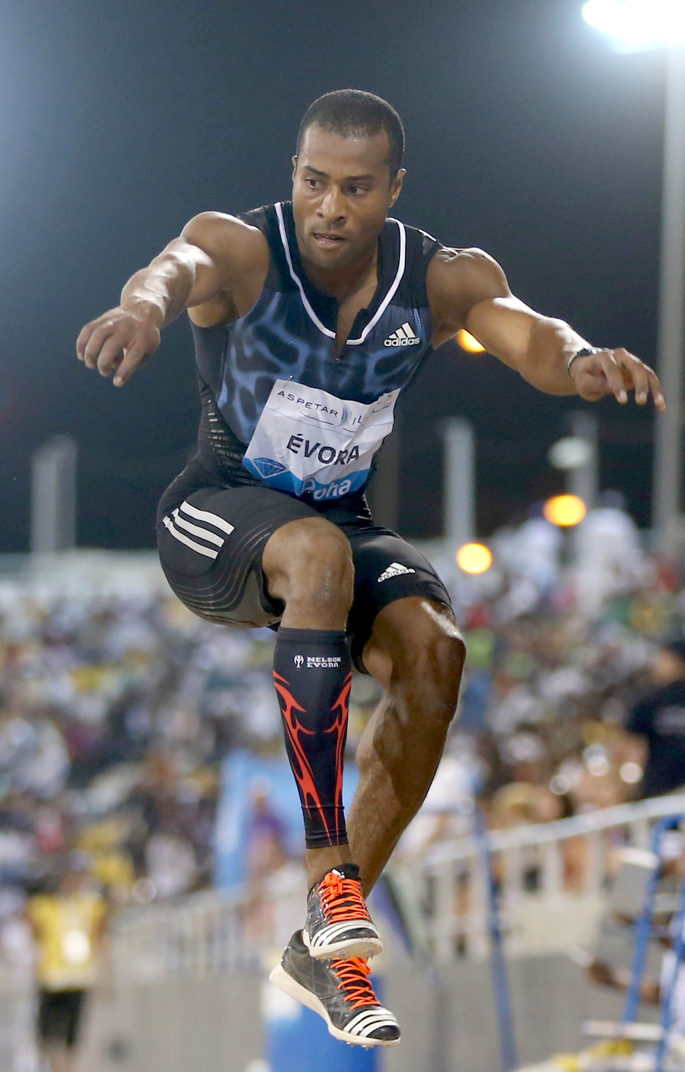 Portugal's Nelson Evora competes in the men's triple jump at the Doha Diamond League.